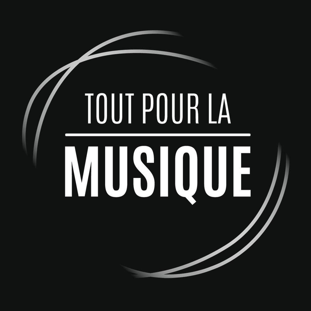 Tout pour la musique - logo